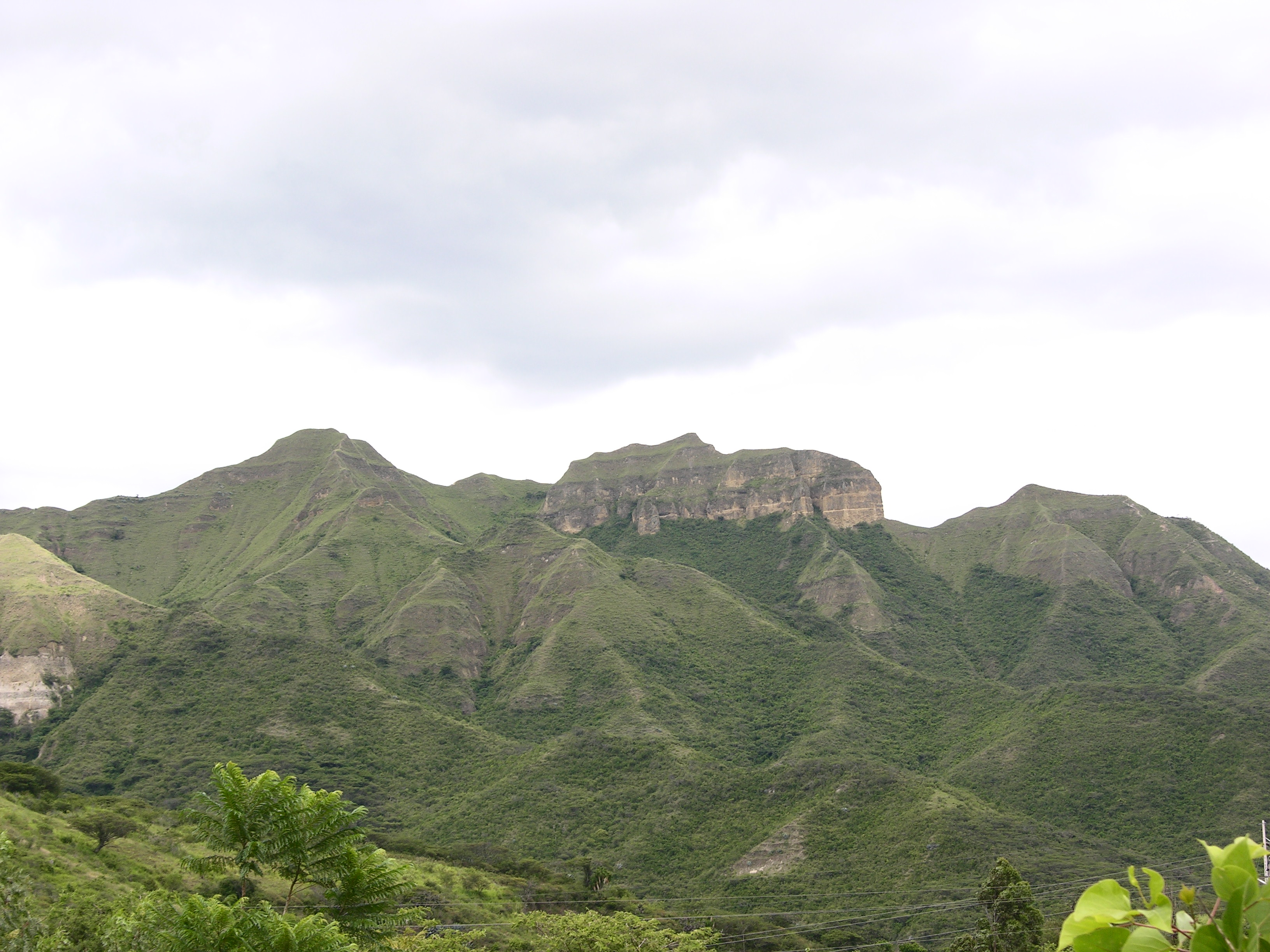 I took this photo while visiting Vilcabamba in 2007